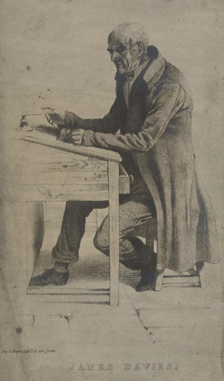 A portrait from the Welsh Portrait Collection at the National Library of Wales. Depicted person: James Davies – Welsh schoolmaster of Devauden (1765-1849)